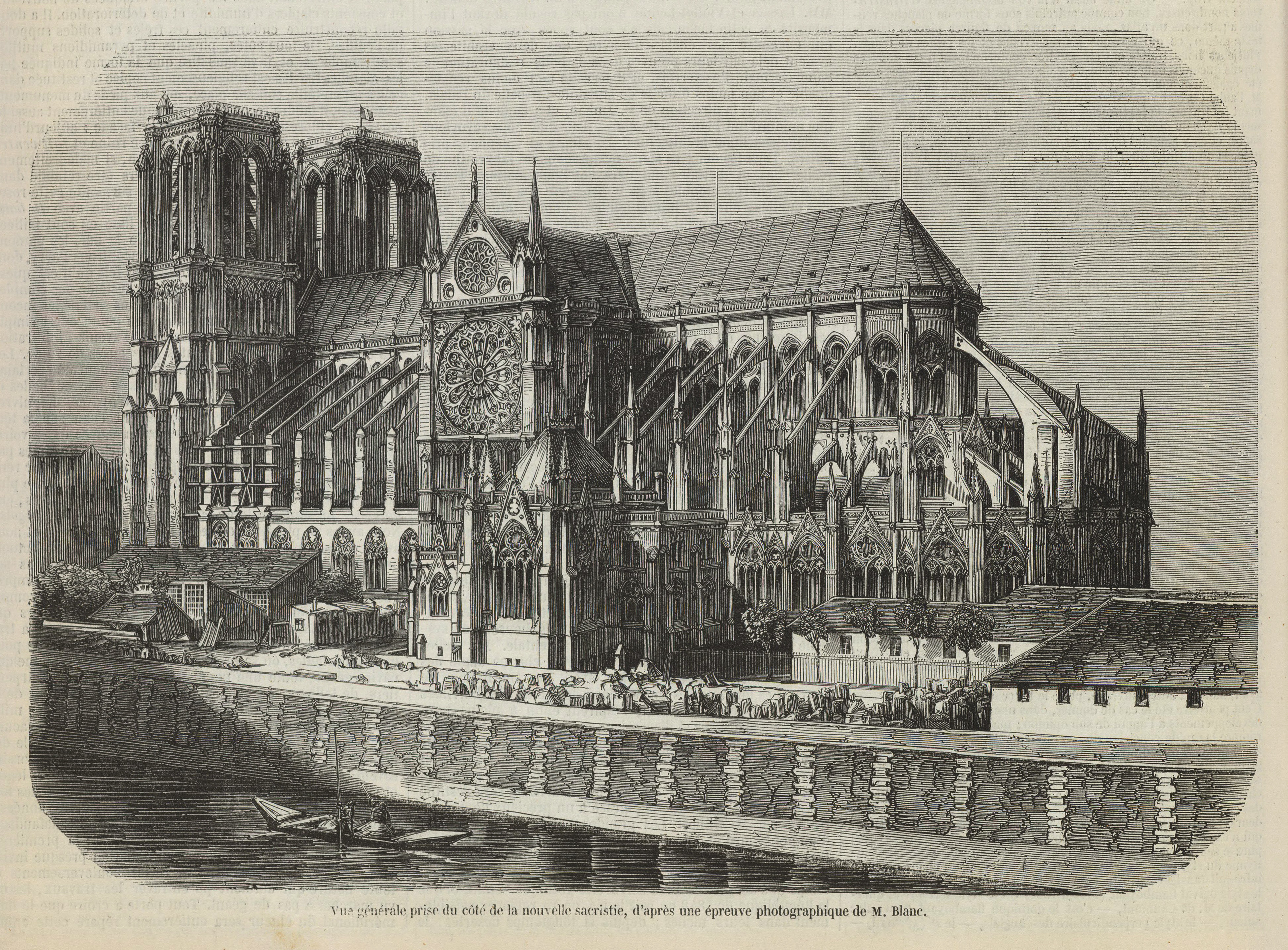 In 1852, Viollet-le-Duc and Lassus were restoring Notre Dame. At the time, retoring a building often included adding new parts, or modifying a few features of the edifice. This particular view shows Notre Dame, as it was renovated by the two architects, who added a new sacristy to the cathedral (On this illustration, next to the right transept).